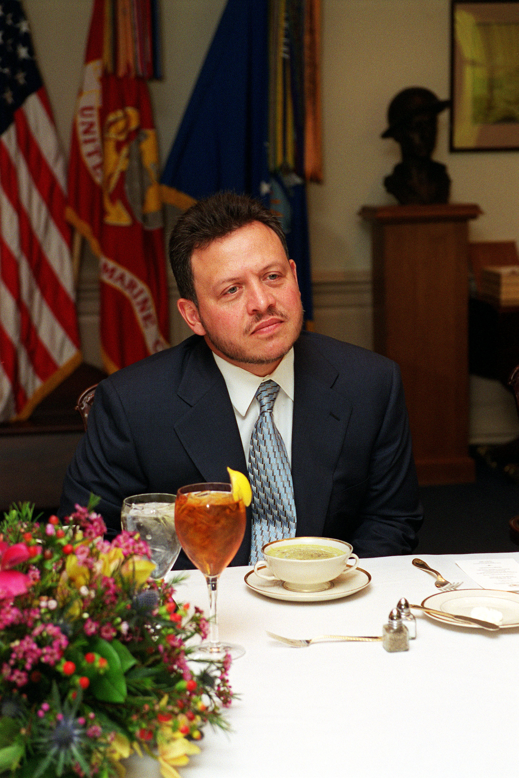 King Abdullah II, of the Hashemite Kingdom of Jordan, meets with Secretary of Defense Donald H. Rumsfeld in the Pentagon on April 5, 2001. King Abdullah II and Rumsfeld are discussing regional security issues of interest to both nations. DoD photo by Helene C. Stikkel. (Released)